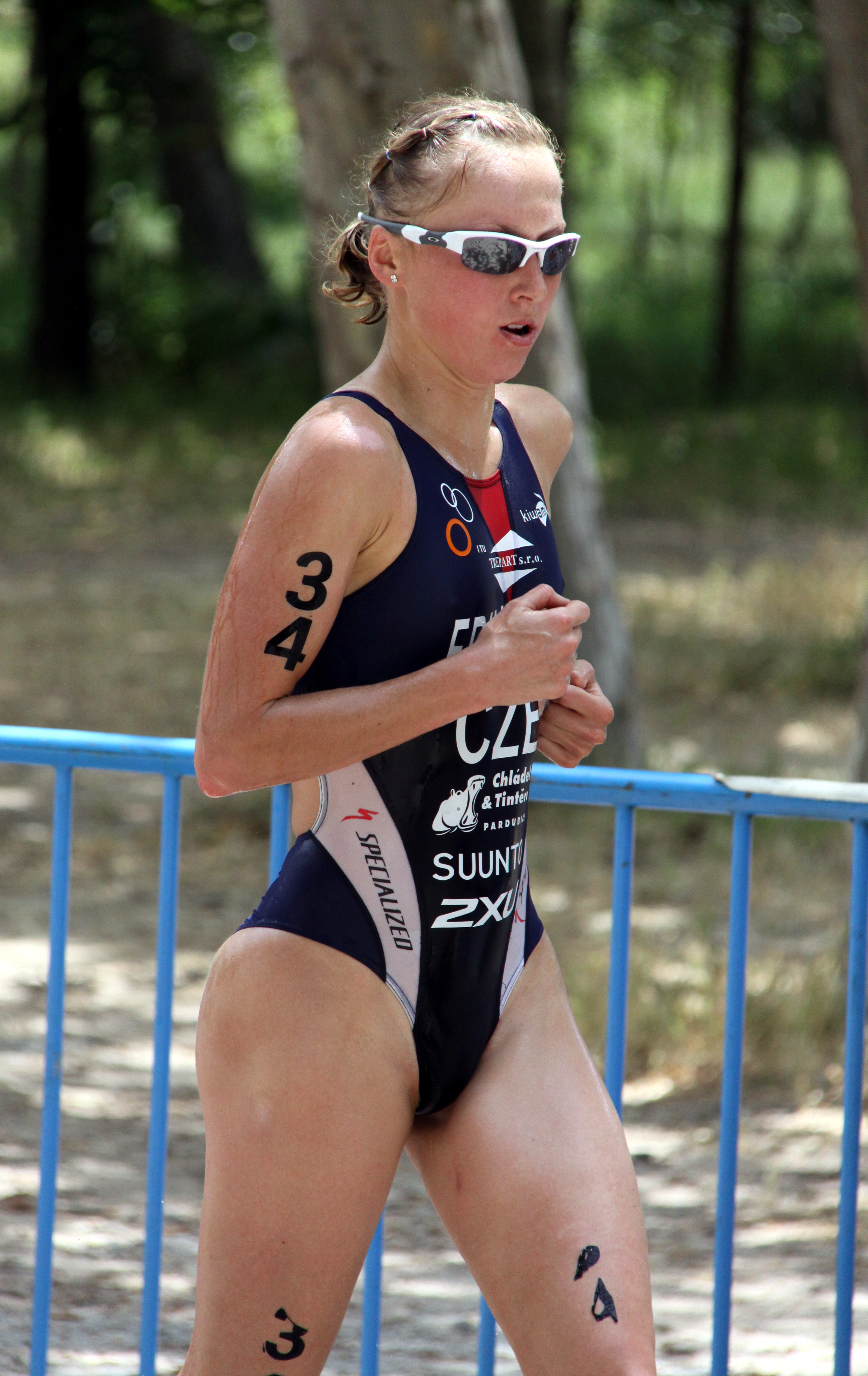 Vendula Frintova at the World Championship Series triathlon in Madrid, 2010.